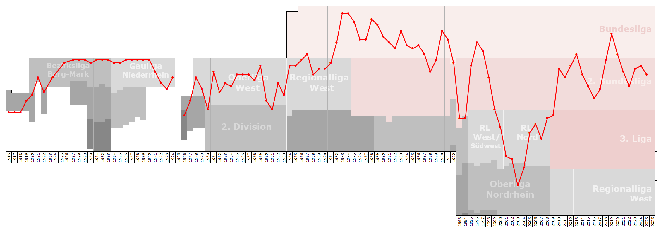 Chart of end-season table positions of Fortuna Dusseldorf in the football league system of Germany. Data source: RSSSF, wikipedia, f-archiv.de, fussball.de